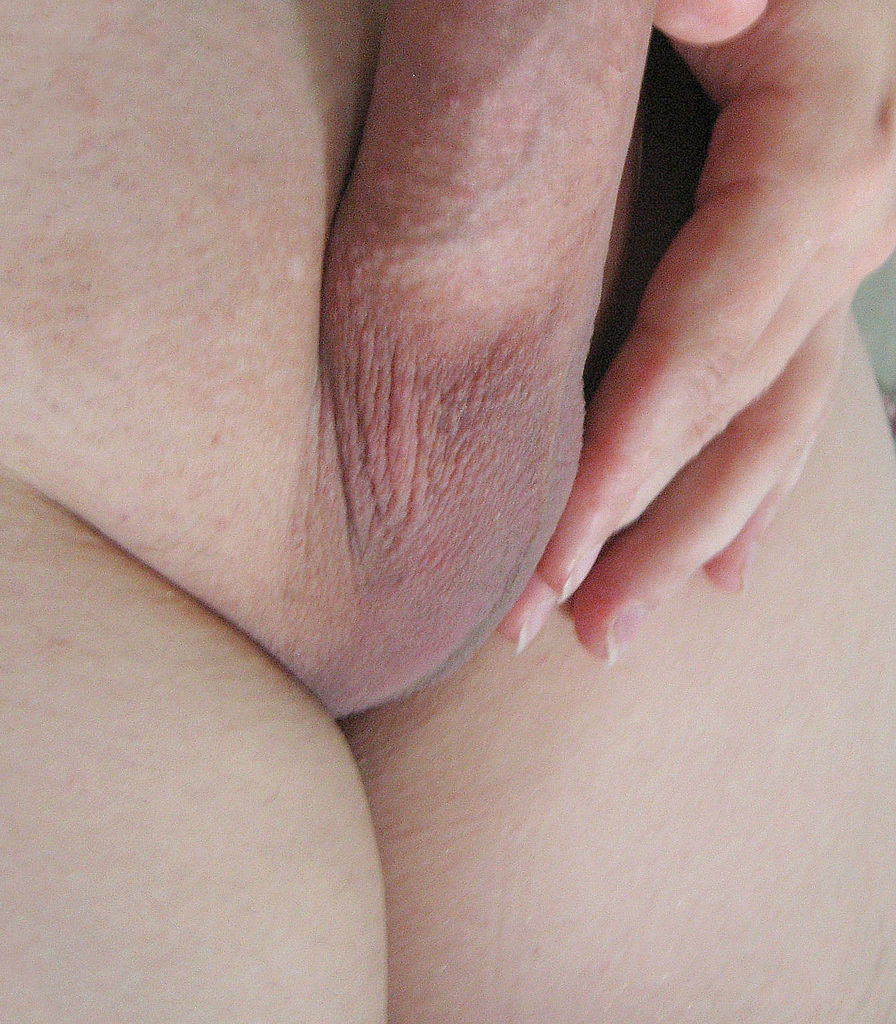 Empty (contracted) scrotum. The testicles are in the groin. Boy's empty and contracted scrotum can remind somewhat girl's labia.